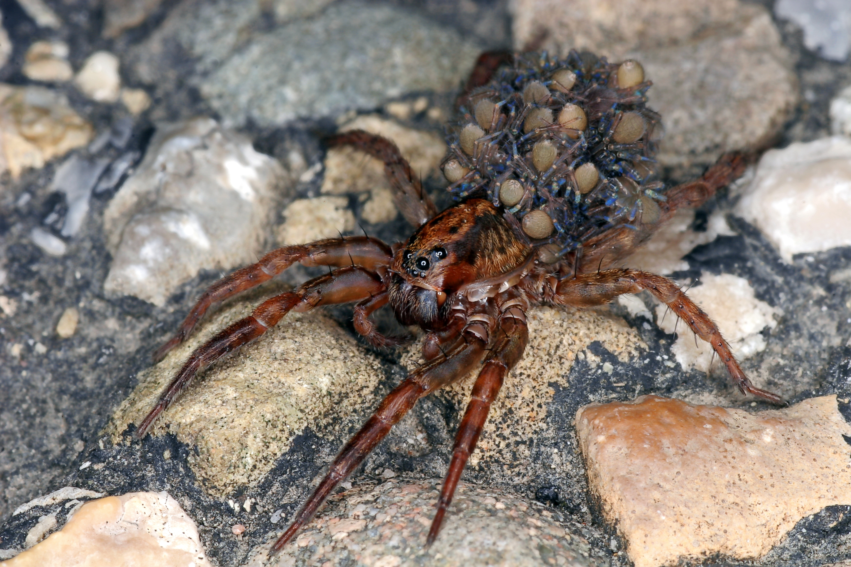 Wolf spider